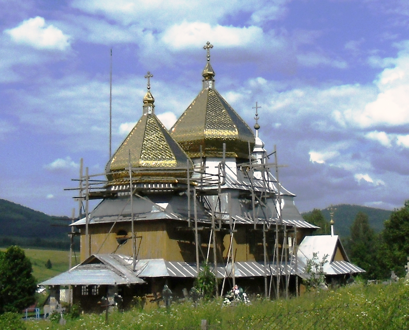 Church of St. Michael (Smozhe, Skole Raion) 1874 (wood). (during renovation)